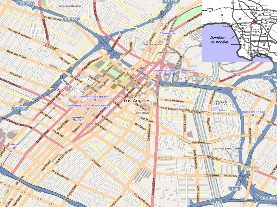 This map of Downtown Los Angeles was created from OpenStreetMap project data, collected by the community. This map may be incomplete, and may contain errors. Don't rely solely on it for navigation. Border coordinates34.0716-118.2693←↕→-118.214334.0279